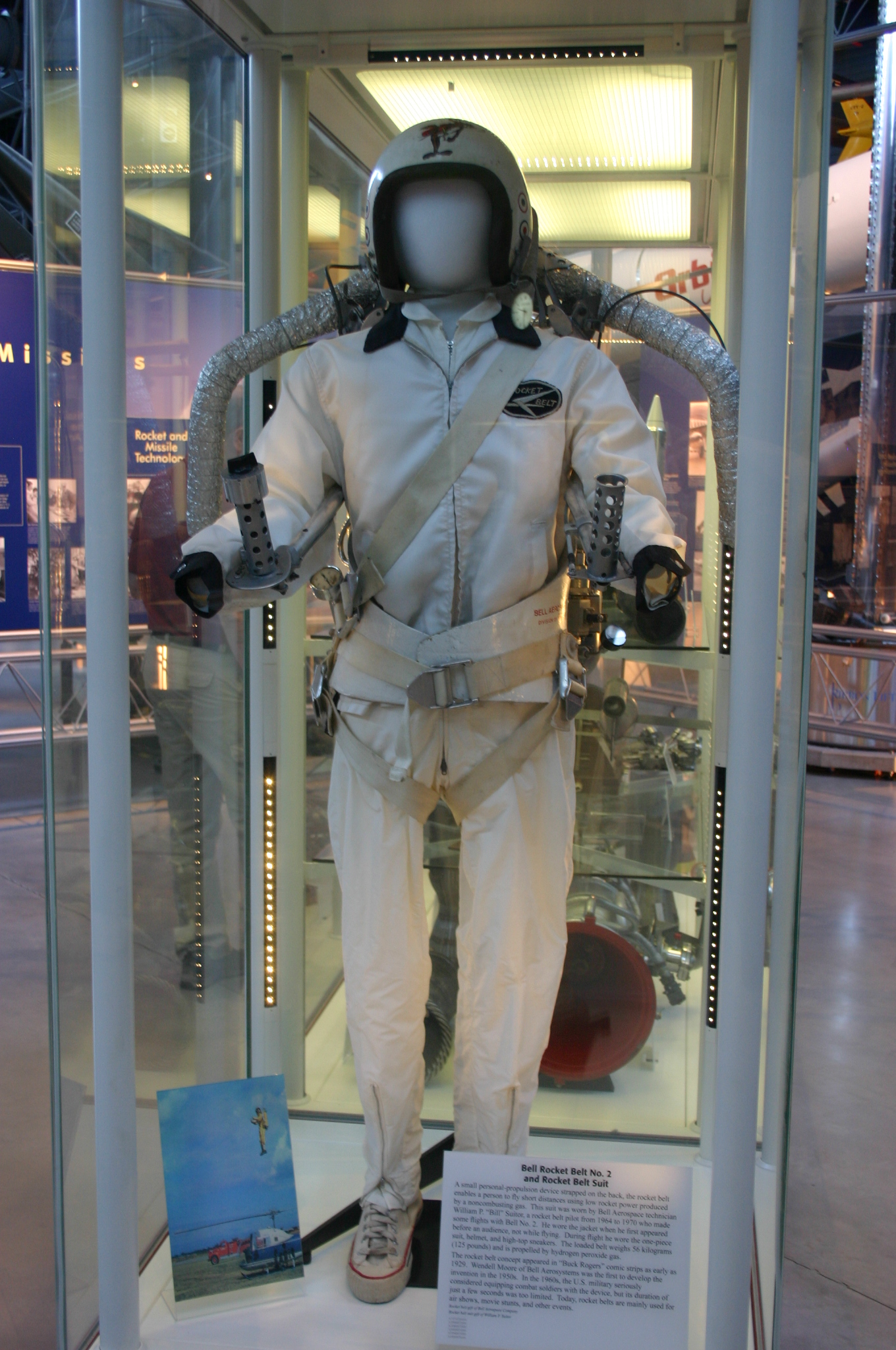 Bell Rocket Belt No.2 and Rocket Belt Suite. Front view.